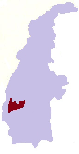 Kalewa Township roughly highlighted in Sagaing Region, Burma